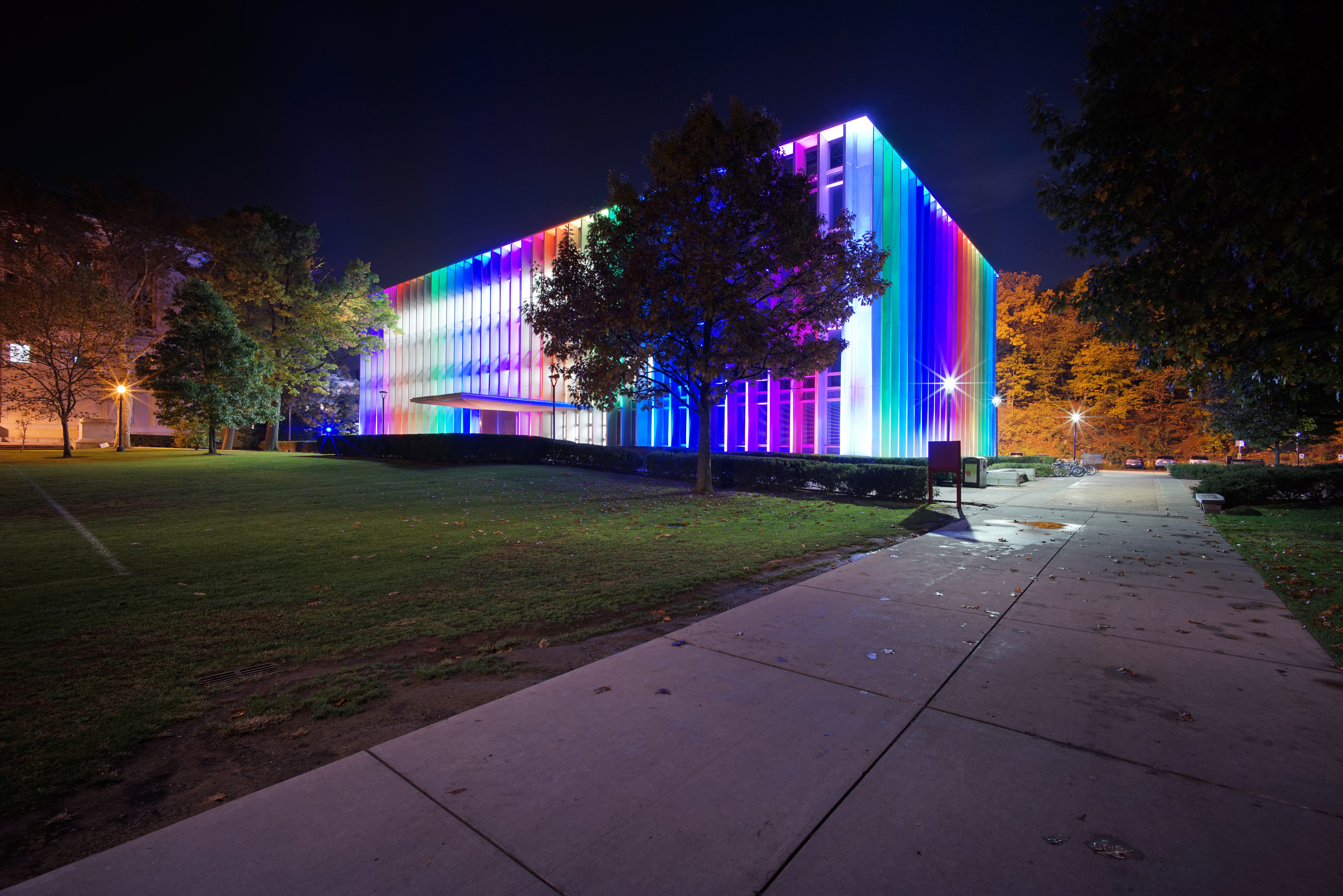 Hunt Library at Carnegie Mellon University in Pittsburgh. The building is illuminated by multicoloured lights that change to different patterns every few minutes.